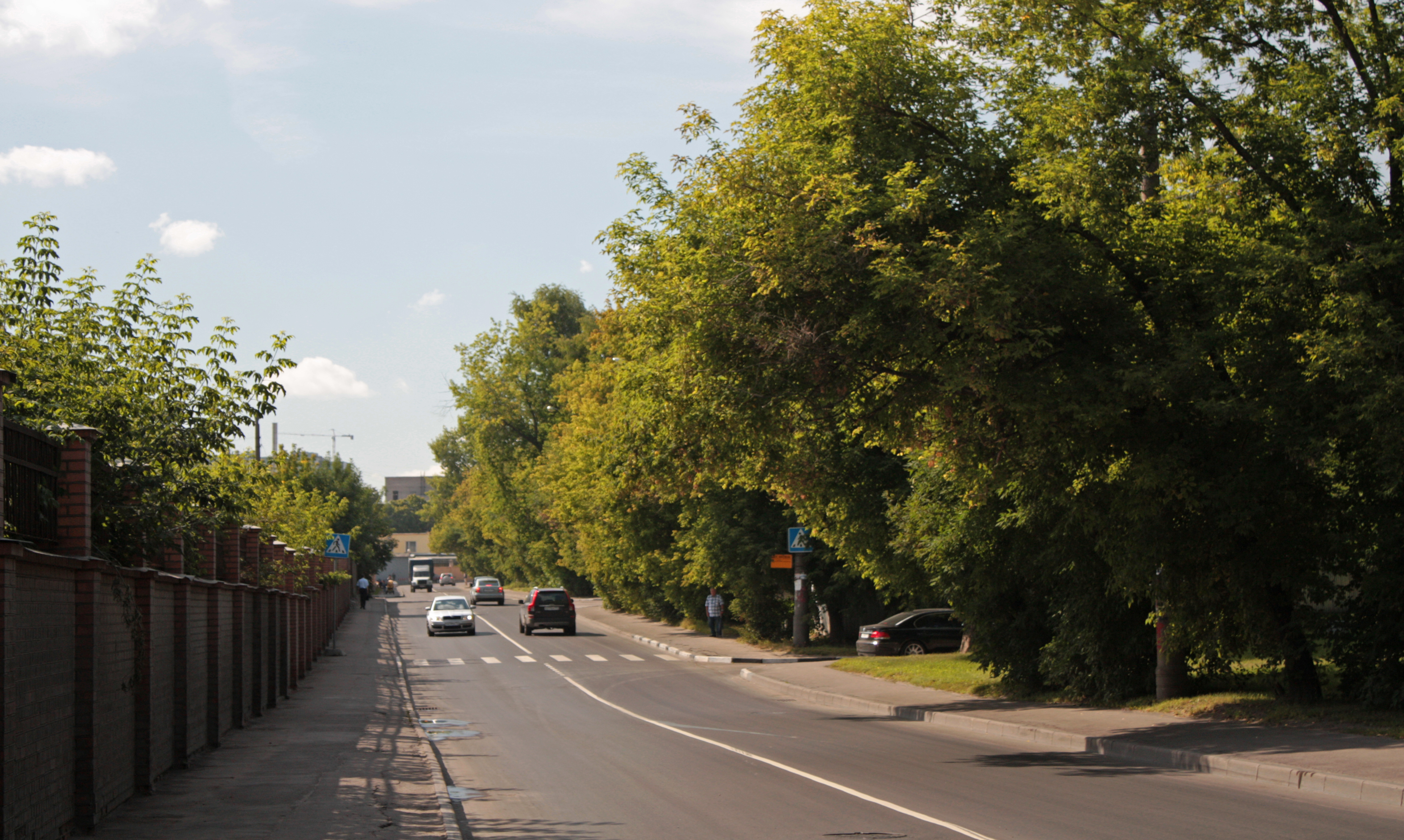 Moscow, Maksimova street. A view from a crossroads from street Gamalei towards Berzarina street